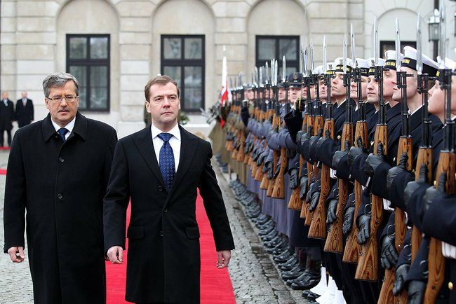 Official welcome ceremony. With President of Poland Bronislaw Komorowski.